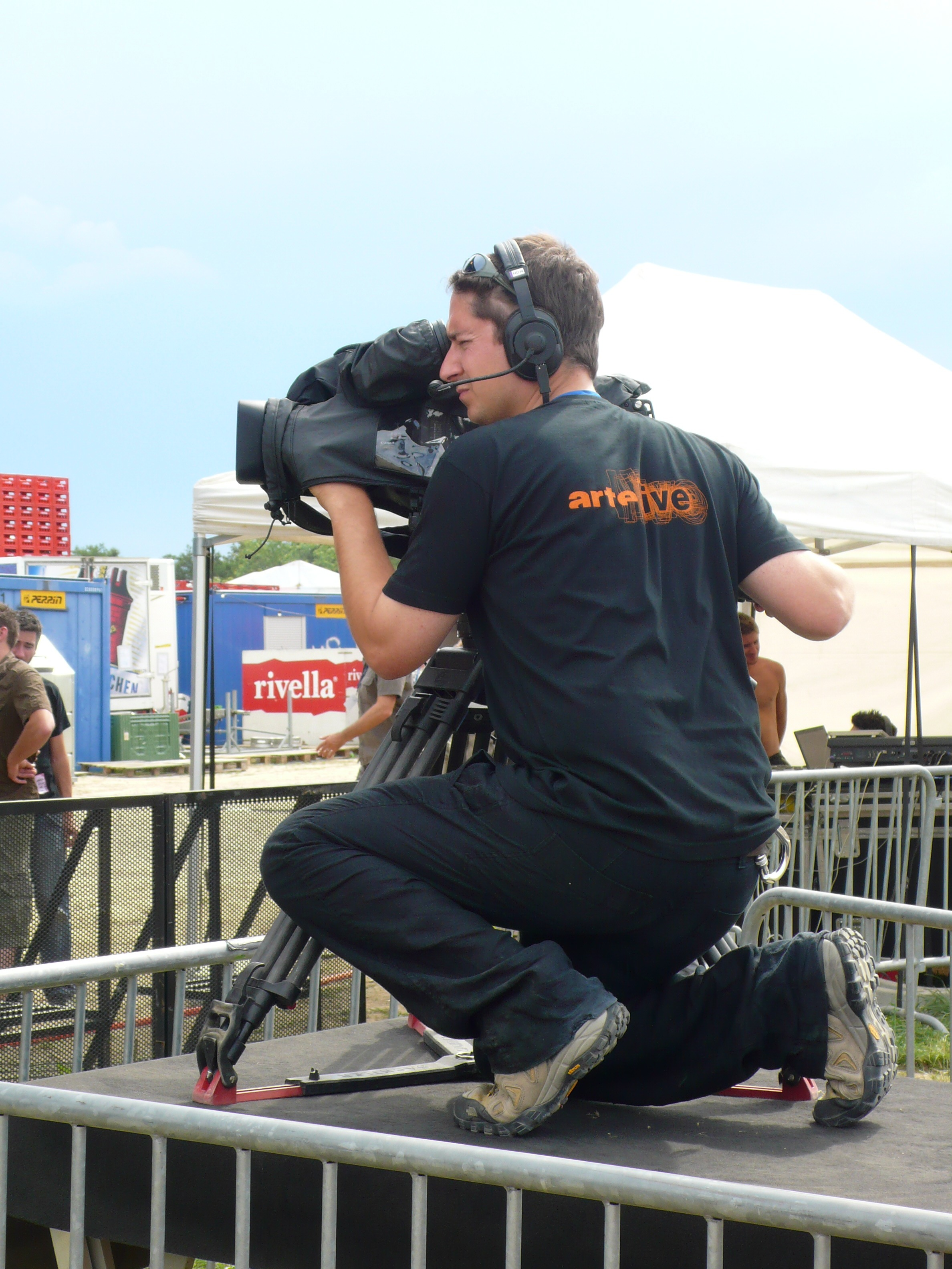 Camera operator, for Arte, Paléo Festival.